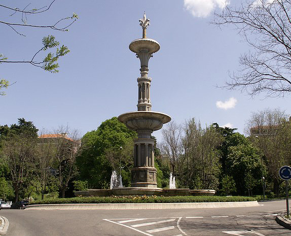 Fuente de Juan de Villanueva ("Fountain of Juan de Villanueva"), in the Parque del Oeste (a park) in Madrid (Spain). It's a monument in honour of architect Juan de Villanueva. A work by architects Víctor d'Ors, Manuel Ambrós and Joaquín Núñez Mera, and sculptor Santiago Costa. It was inaugurated on July 7, 1952.